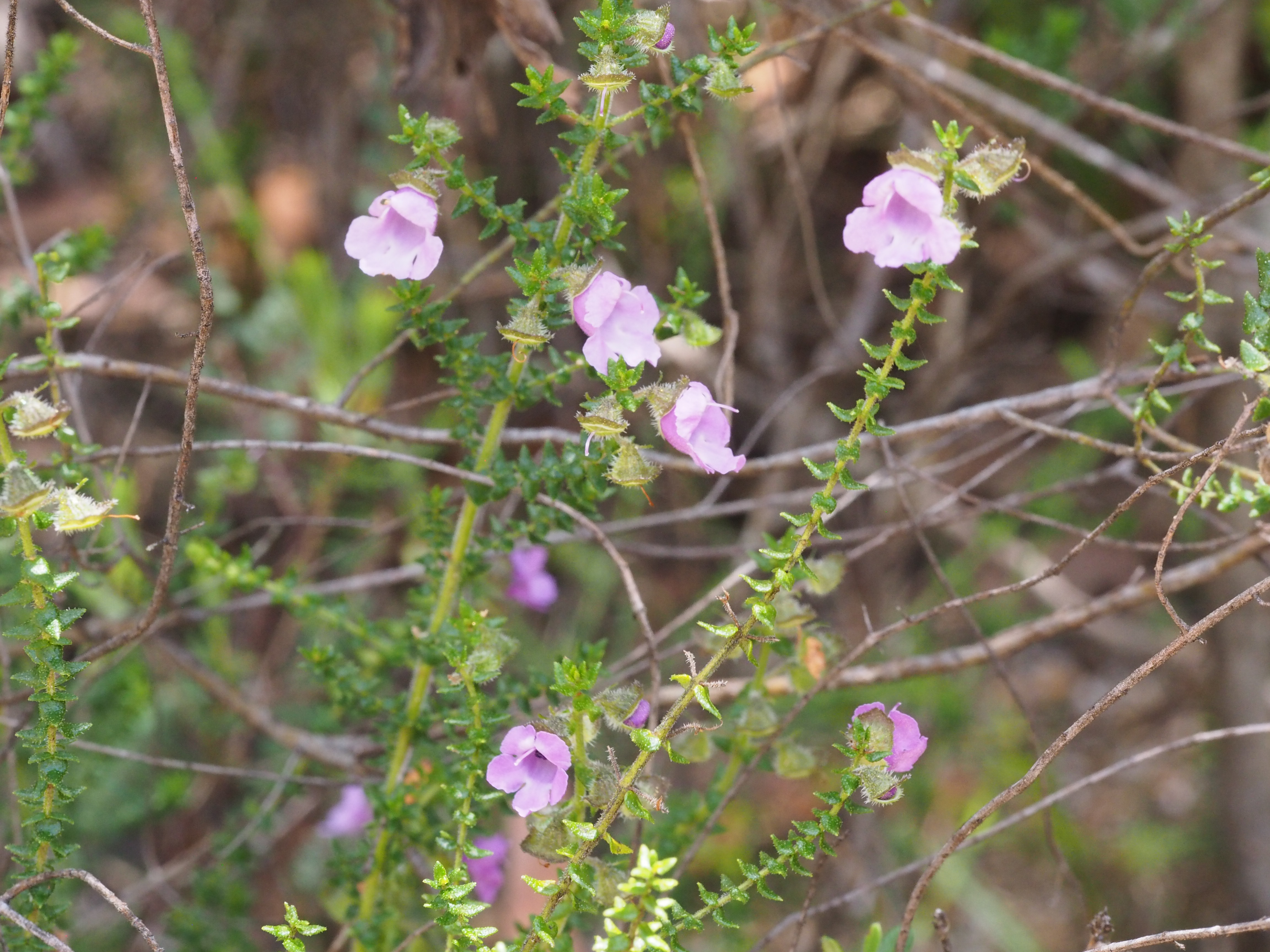 Prostanthera howelliae growing at The Granites in the Washpool National Park